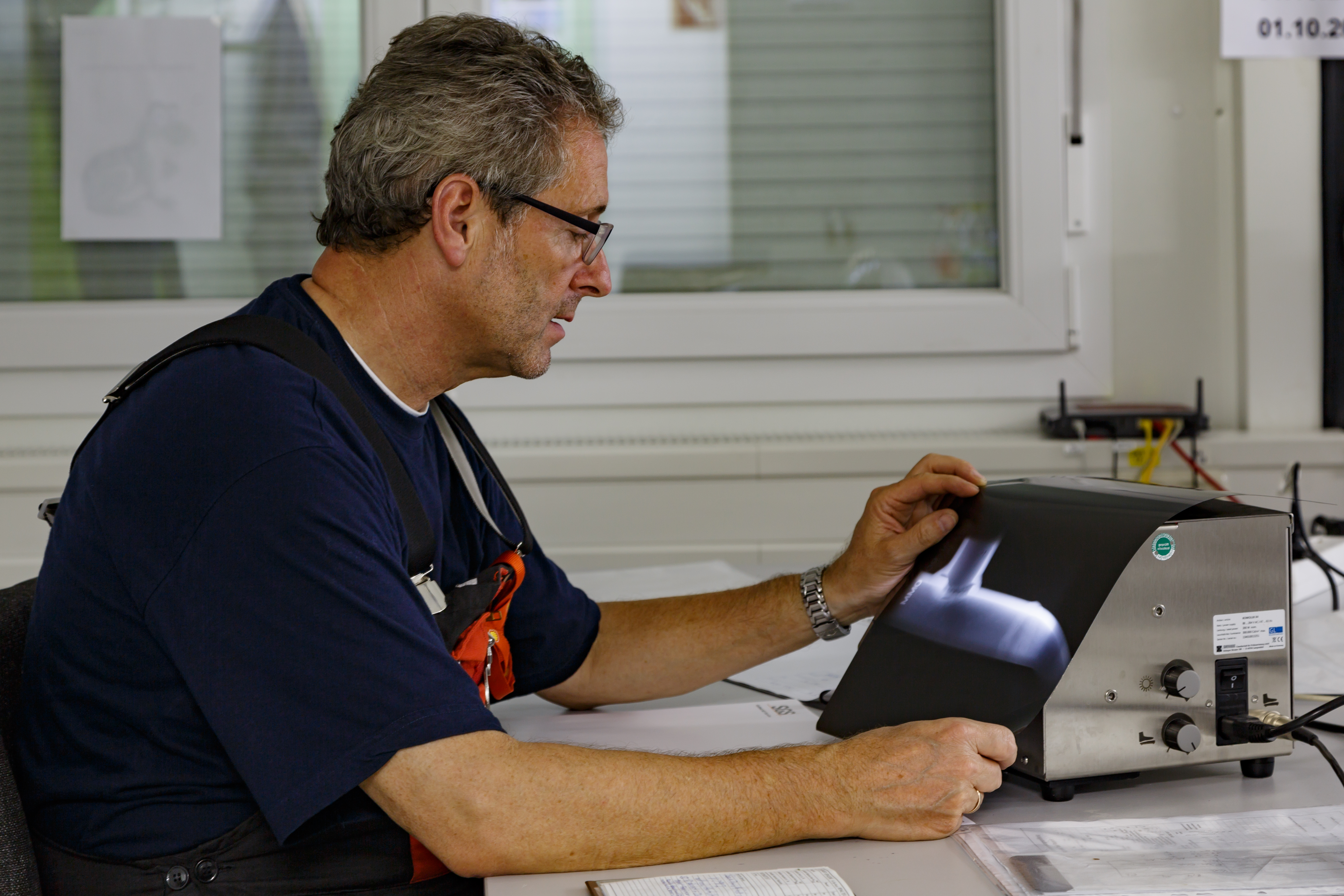 Cologne, Germany: An inspector is evaluating the xray film of a pipe reduction to identify wall thinning